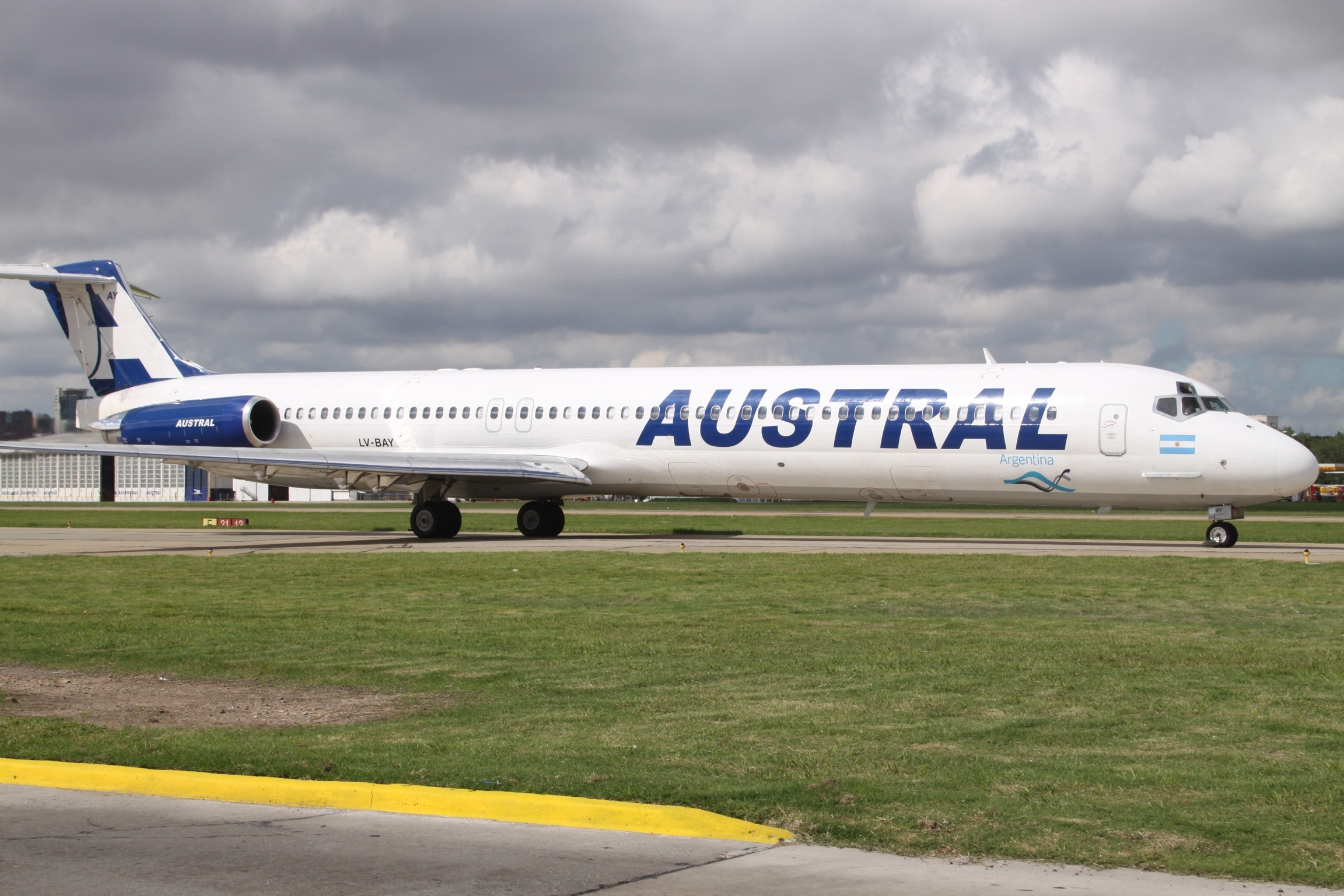 At Buenos Aires Aeroparque